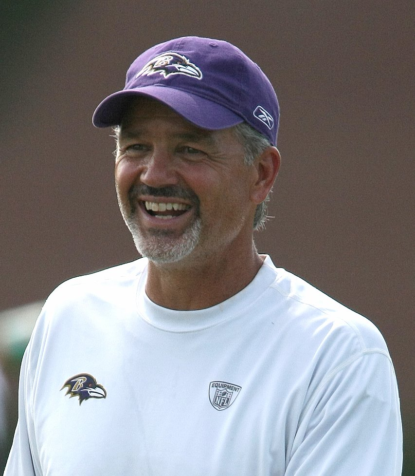 Pagano at Baltimore Ravens Training Camp